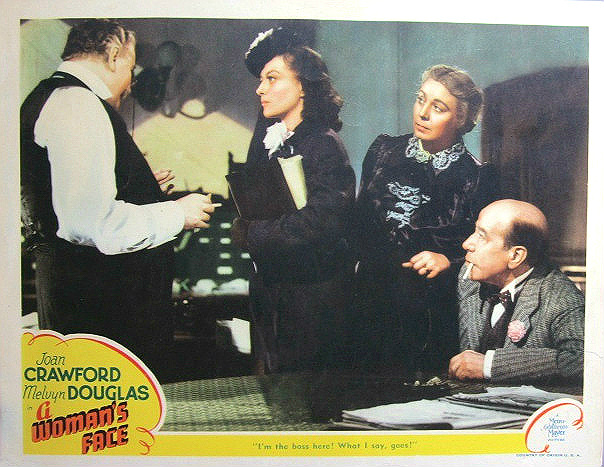 Lobby card for the American drama film A Woman's Face (1941).